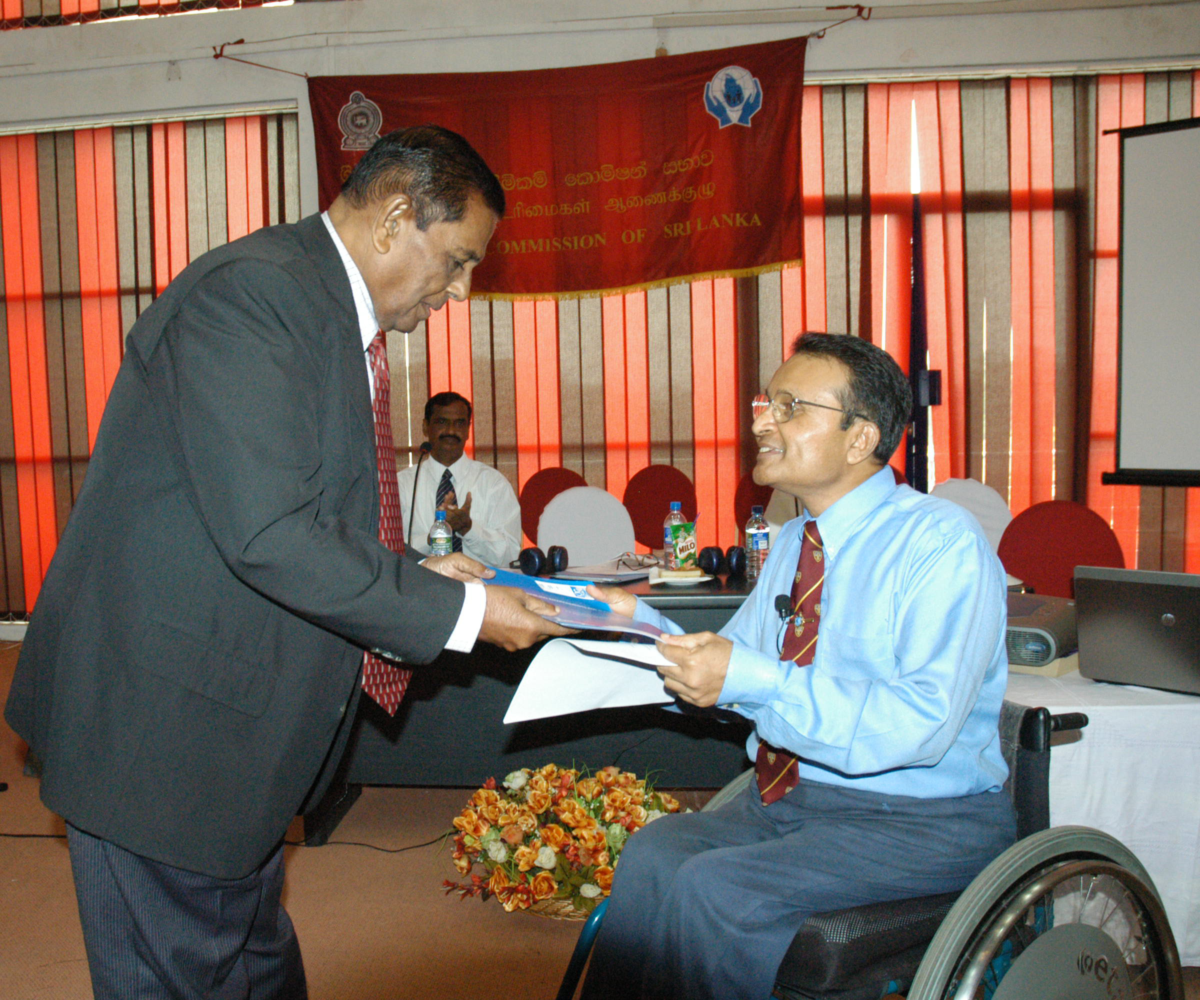 Taken by SELF at the MEDIA CONFERENCE organised by the Human Rights Commission of Sri Lanka in Colombo